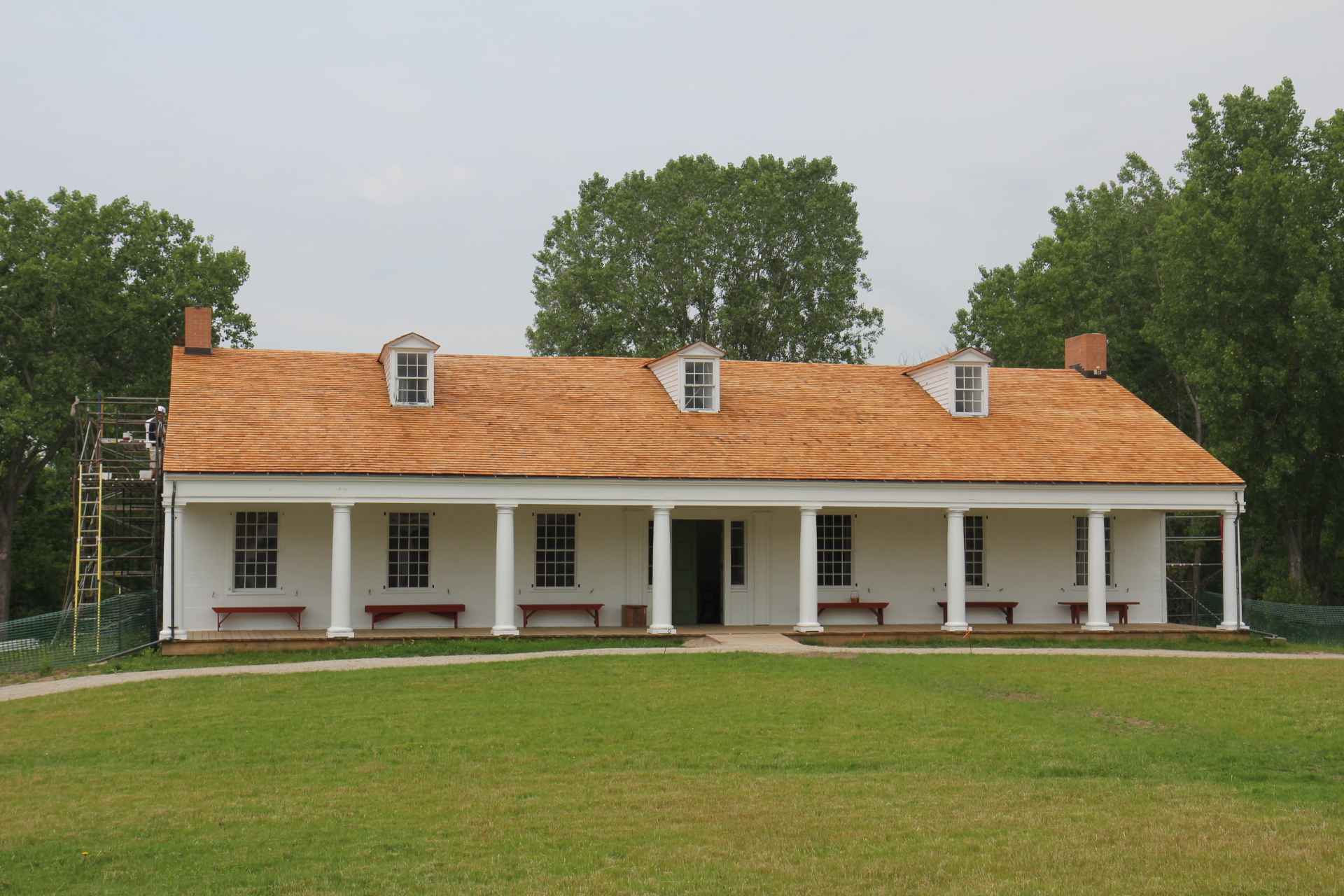 Renovations at Fort Howard Ward Building at Heritage Hill State Park, 2640 S. Webster Ave. Green Bay. It is listed on the National Register of Historic Places.